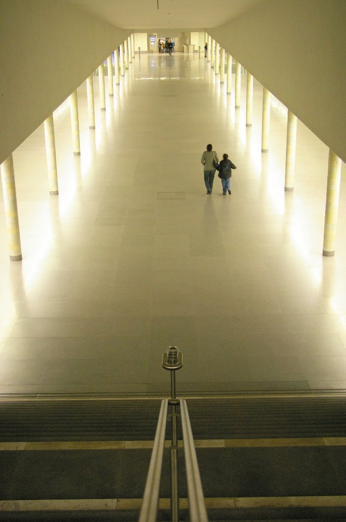 São Bento underground (subway) station in Porto, Portugal